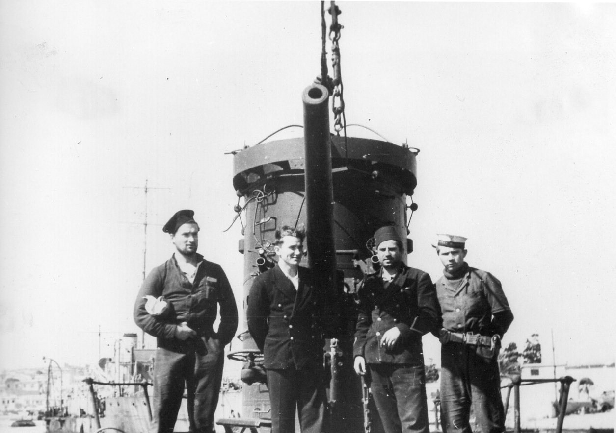 Petty officers and seamen of ORP Dzik on deck. La Valetta.